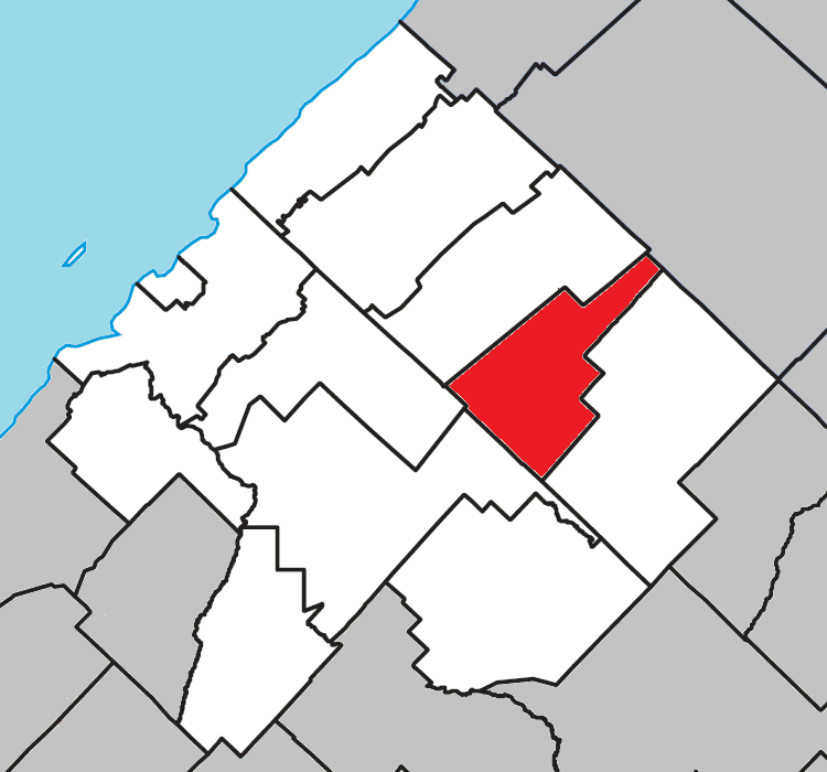 Location of Saint-Médard, Quebec within Les Basques Regional County Municipality.